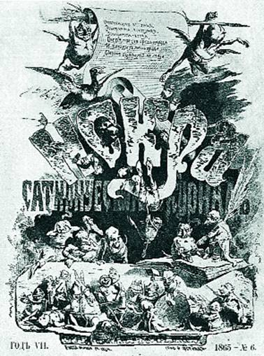 Title page of "Iskra" satirical magazine, 1865, №6.